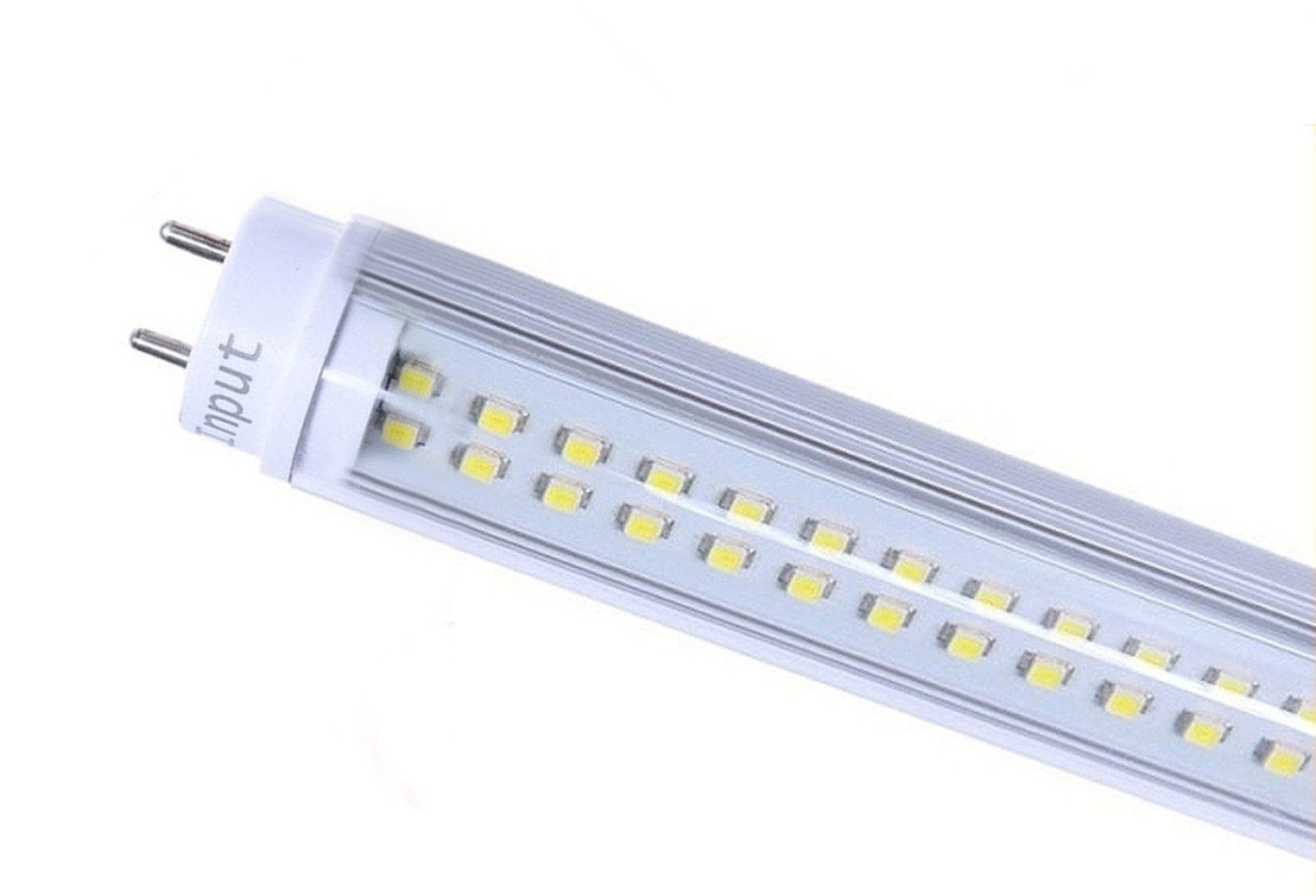 Detail (one of two edges) from a 17W LED tube equivalent to a 45W fluorescent tube